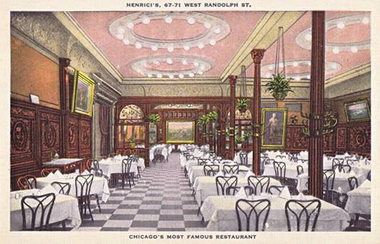 Picture of Henrici's restaurant on Randolph St., Chicago, IL as designed by the architect August Fiedler